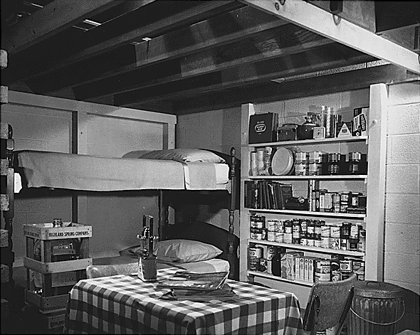 1950s fallout shelter from